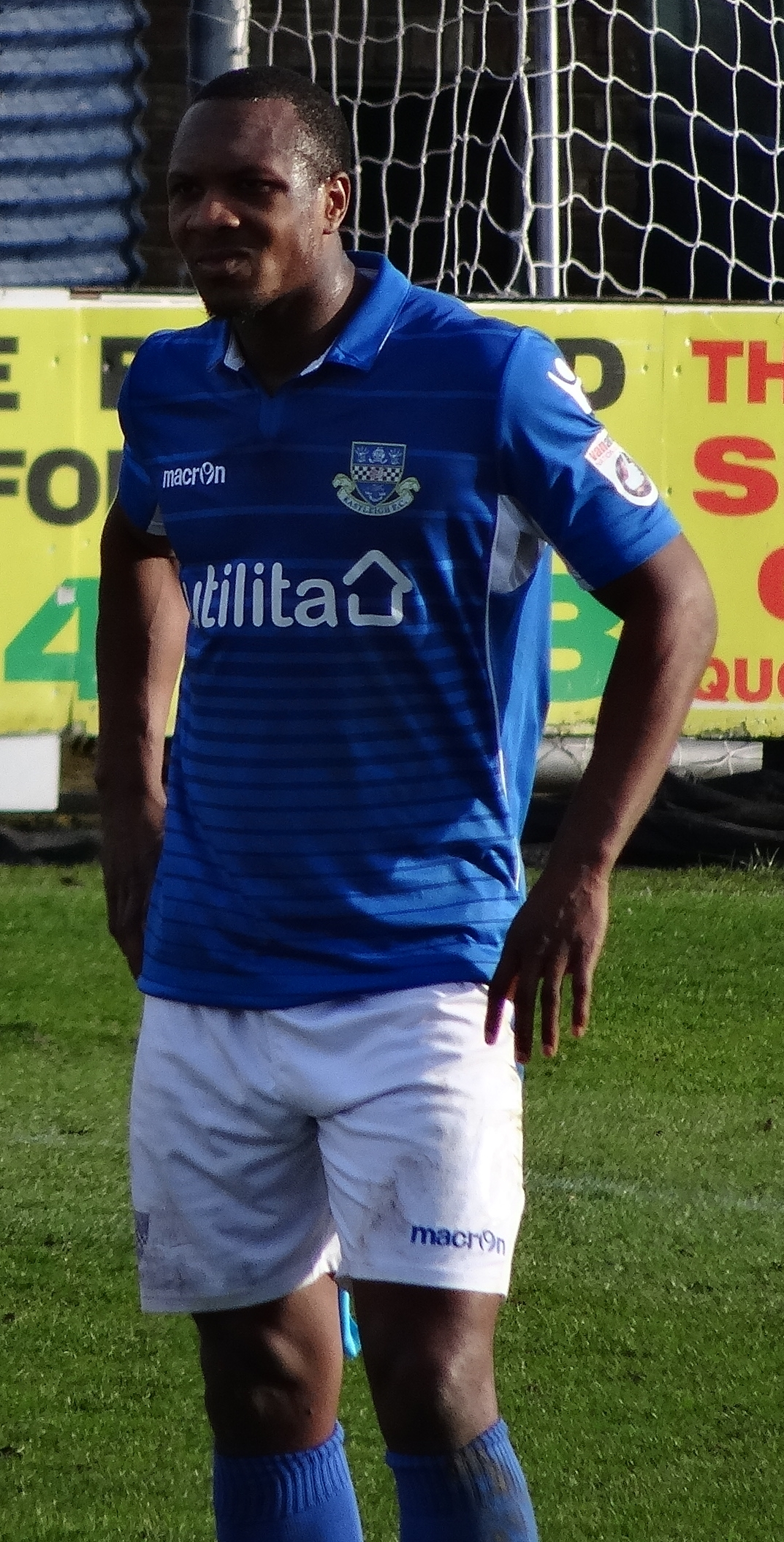 Gavin Hoyte playing for Eastleigh against York City at Bootham Crescent, York on 4 March 2017